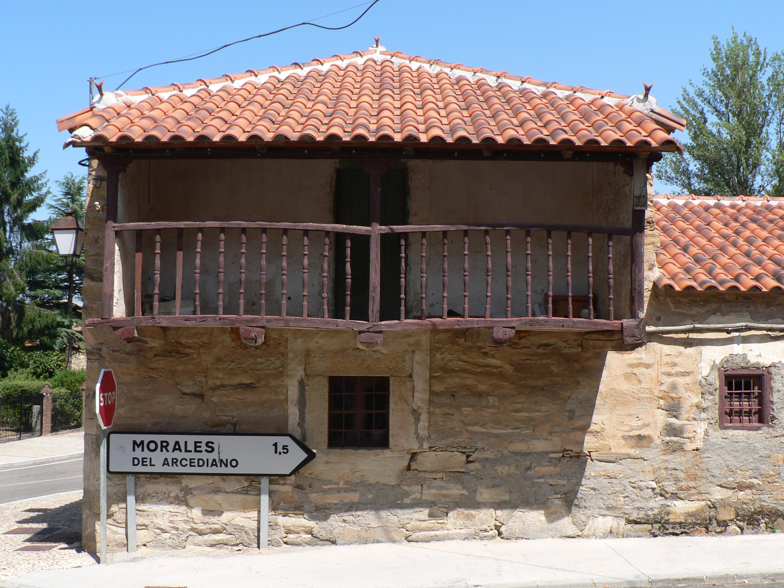 A typical house in Val de San Lorenzo, a spanish village in the Province of León